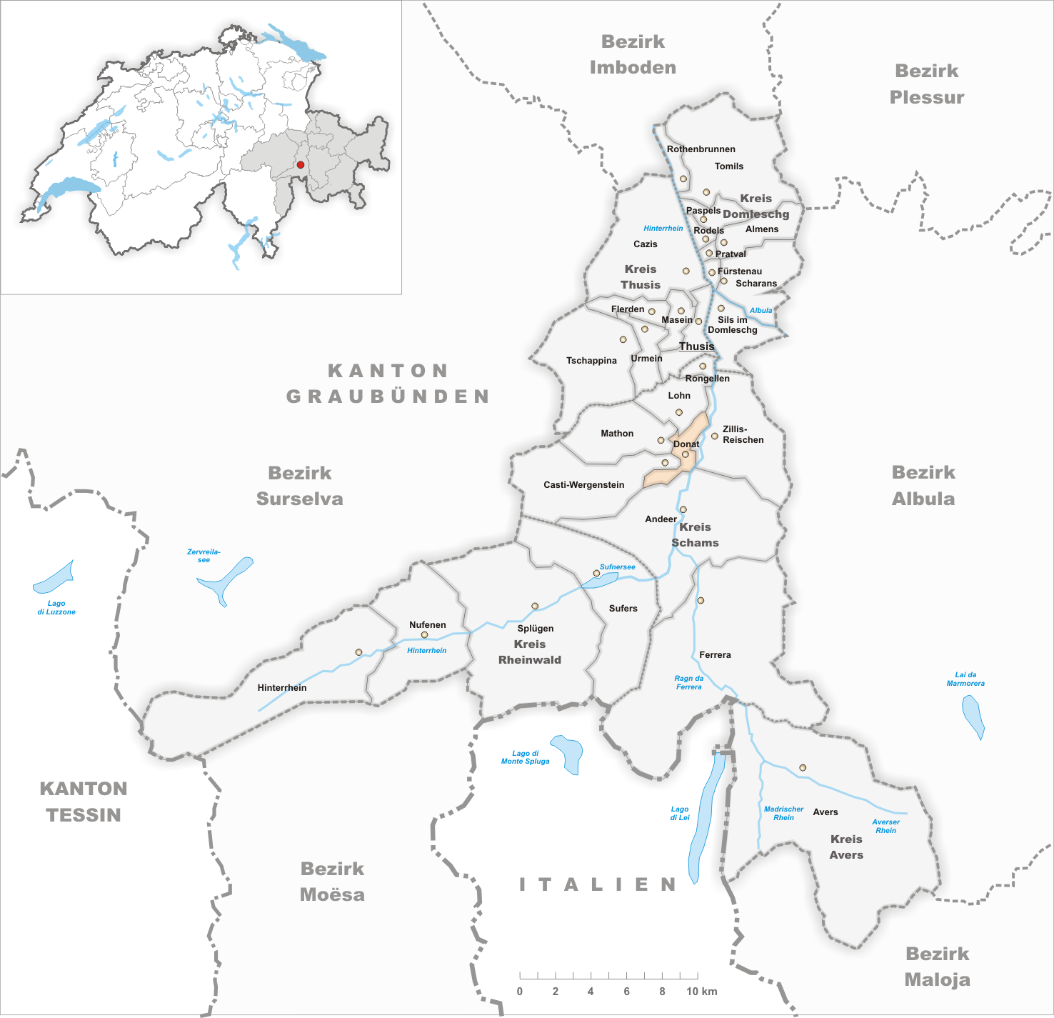 Municipality Donat